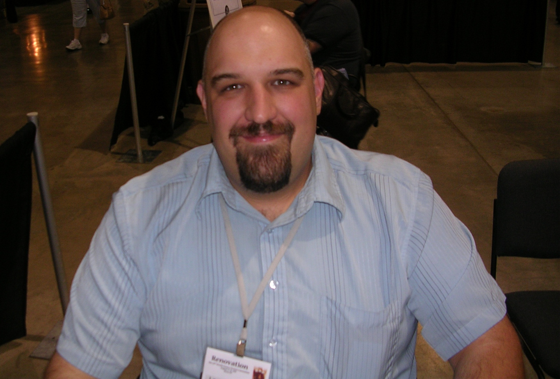 New York Times Bestseller Larry Correia at WorldCon 69: Renovation